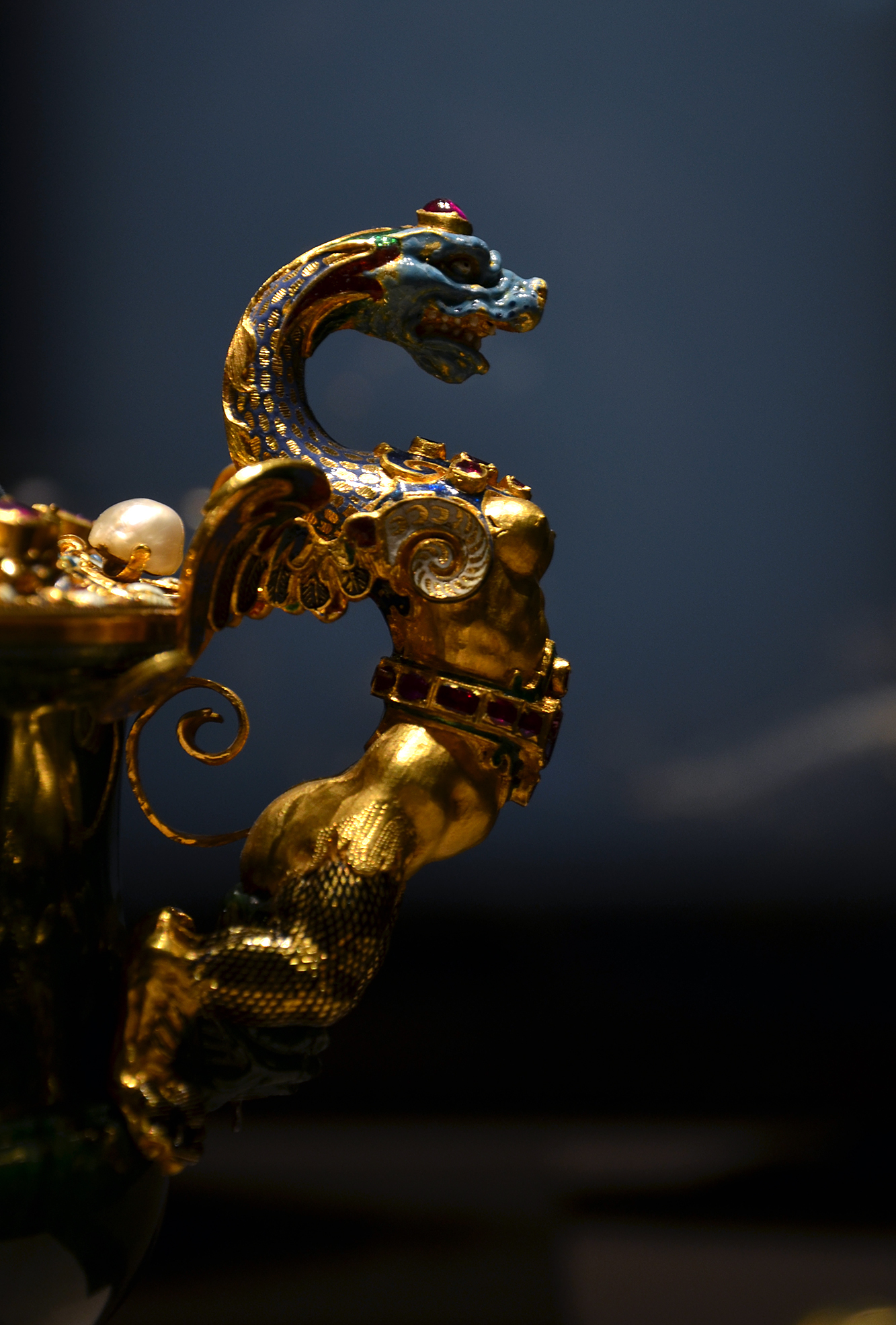 Lidded bowl by Gasparo Miseroni (ca 1518-1573), Milan, ca 1570. Now in the Kunsthistorisches Museum in Vienna. Detail of a handle.